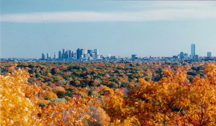 Boston surrounded by brilliant autumnal colors